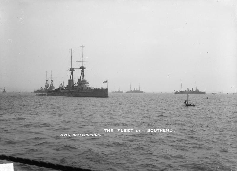 Battleships of the Royal Navy Pre-1914 The fleet off Southend with HMS Bellerophon nearest to the camera.